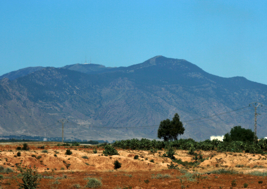 Djebel Chambi near the city Kasserine in Tunisia